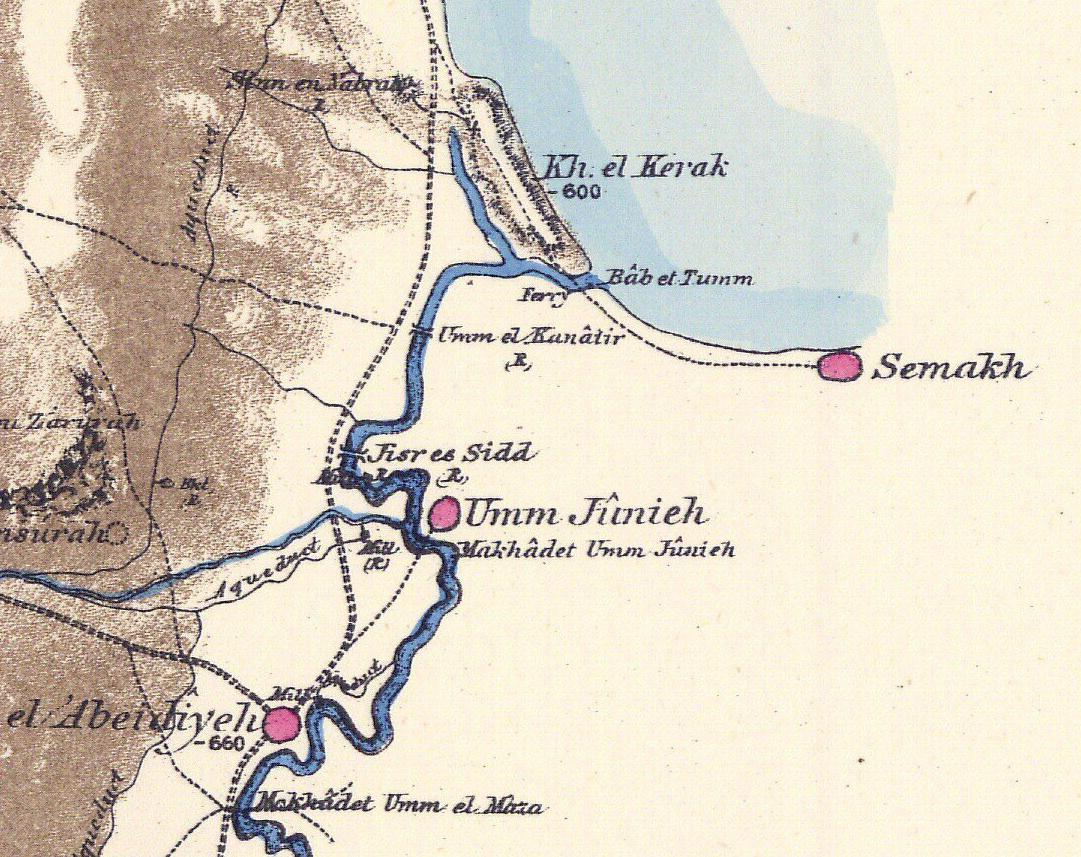 Umm Junieh, Um Juni map 1880